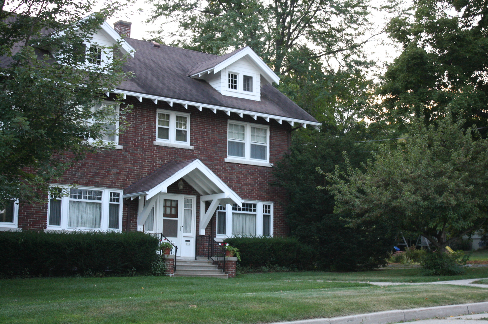 A house in the Prairie Street Historic District in Columbus, Wisconsin, a historic district listed on the National Register of Historic Places. The street address is 615 West Prairie Street.